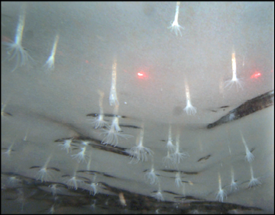 External anatomy and habitus of Edwardsiella andrillae n. sp. B. “Field” of Edwardsiella andrillae n. sp. in situ. Image captured by SCINI, improved with photoshop. Red dots are 10 cm apart. from authors : Marymegan Daly, Frank Rack, Robert Zook